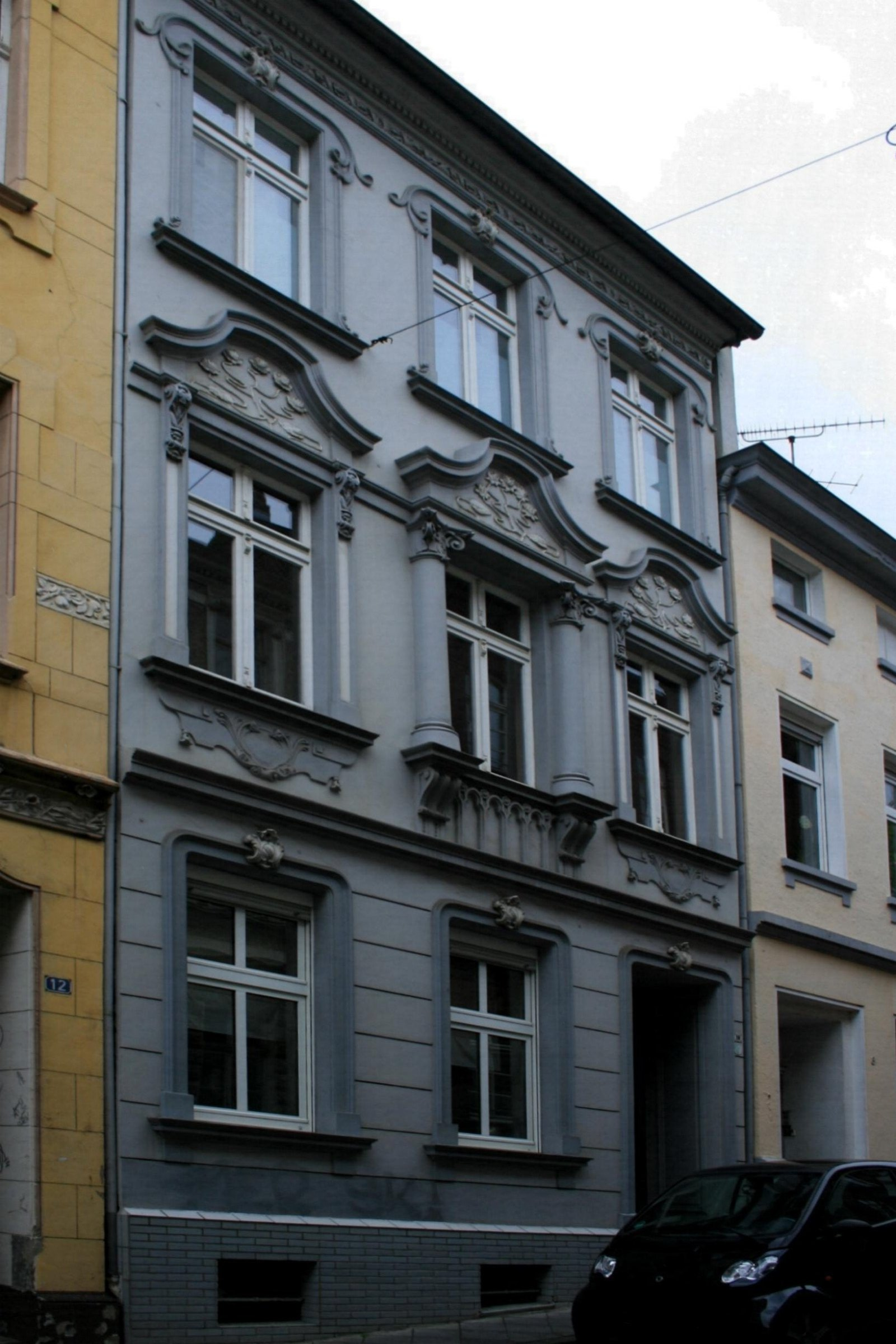 Cultural heritage monument No. L 028 in Mönchengladbach